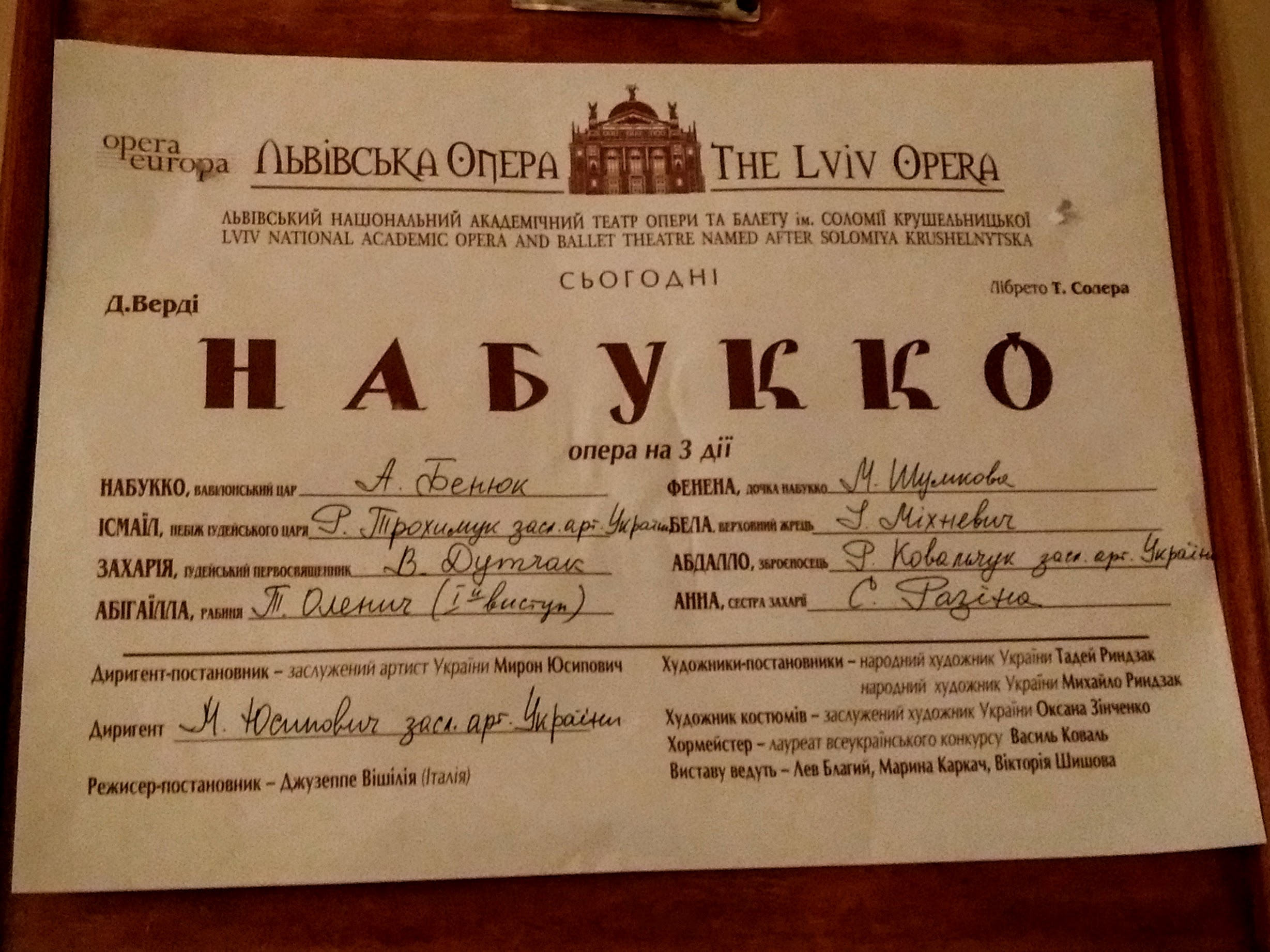 Opera singers during 2016 Lviv Opera's "Nabucco" performance.